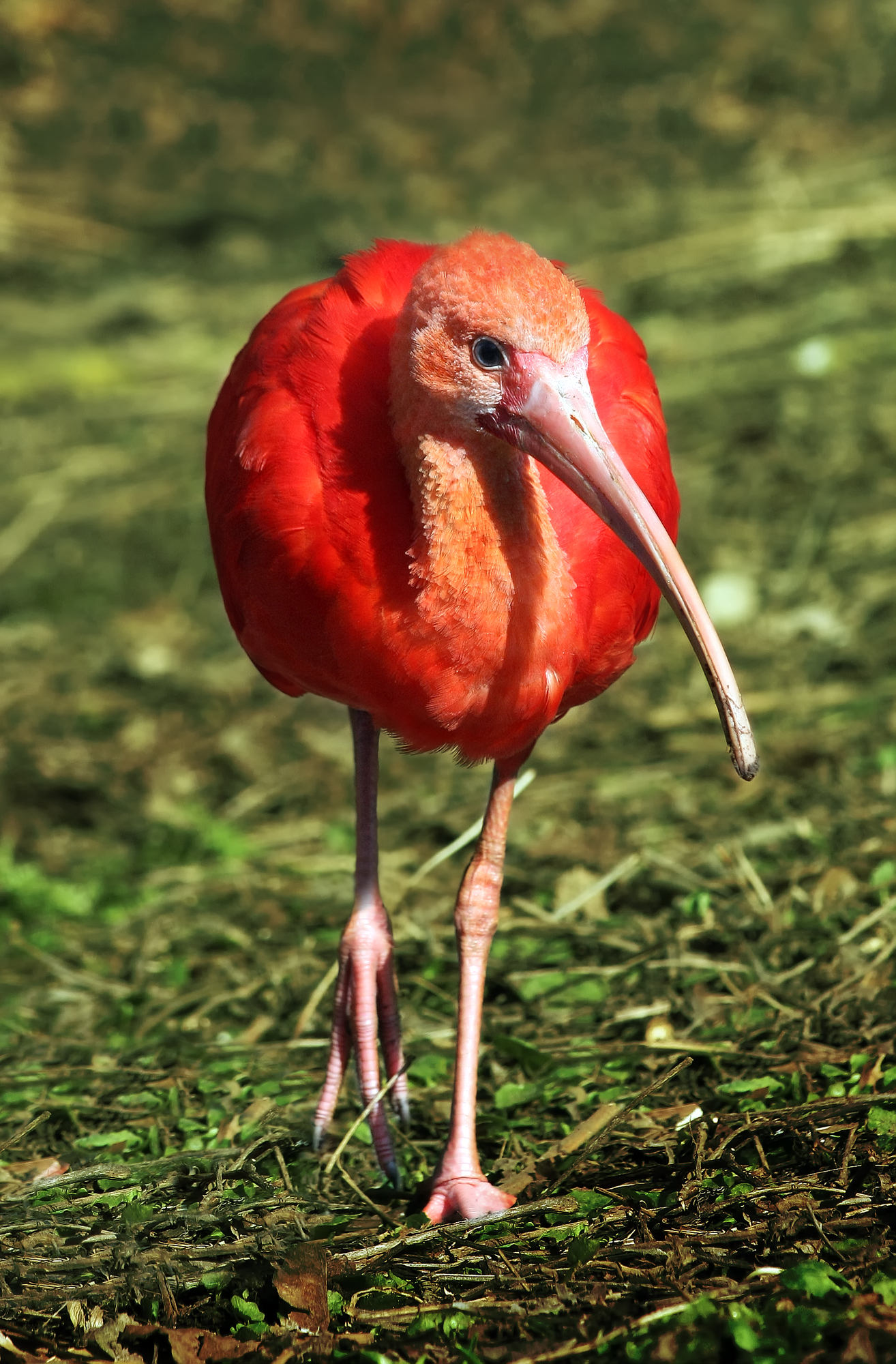 Eudocimus is a genus of ibises, wading birds of the family (Threskiornithinae).As shown (Eudocimus ruber).